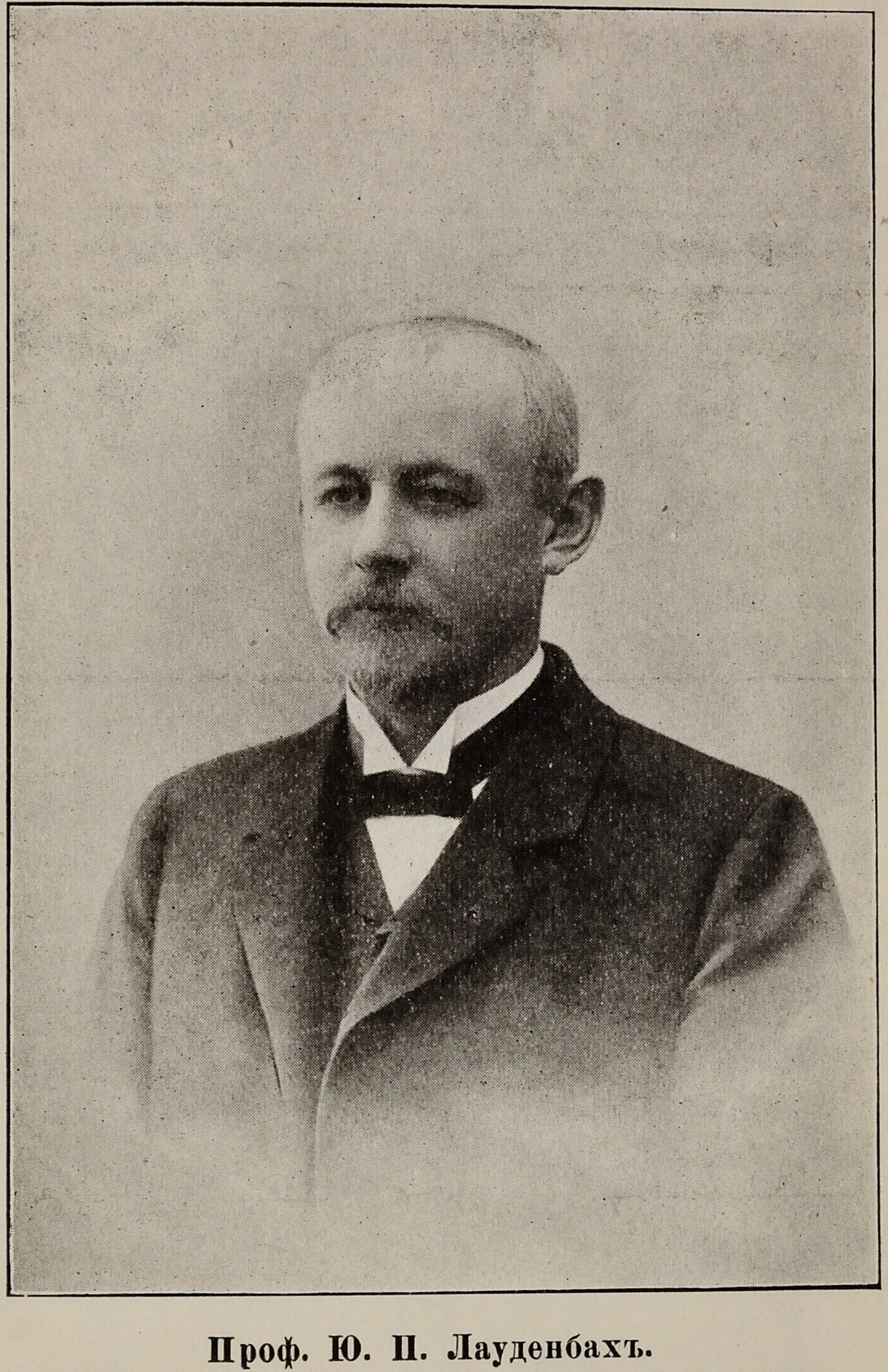 Yuliy Petrovich Laudenbakh